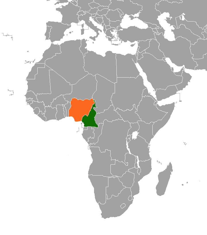 Map showing the locations of both Cameroon and Nigeria